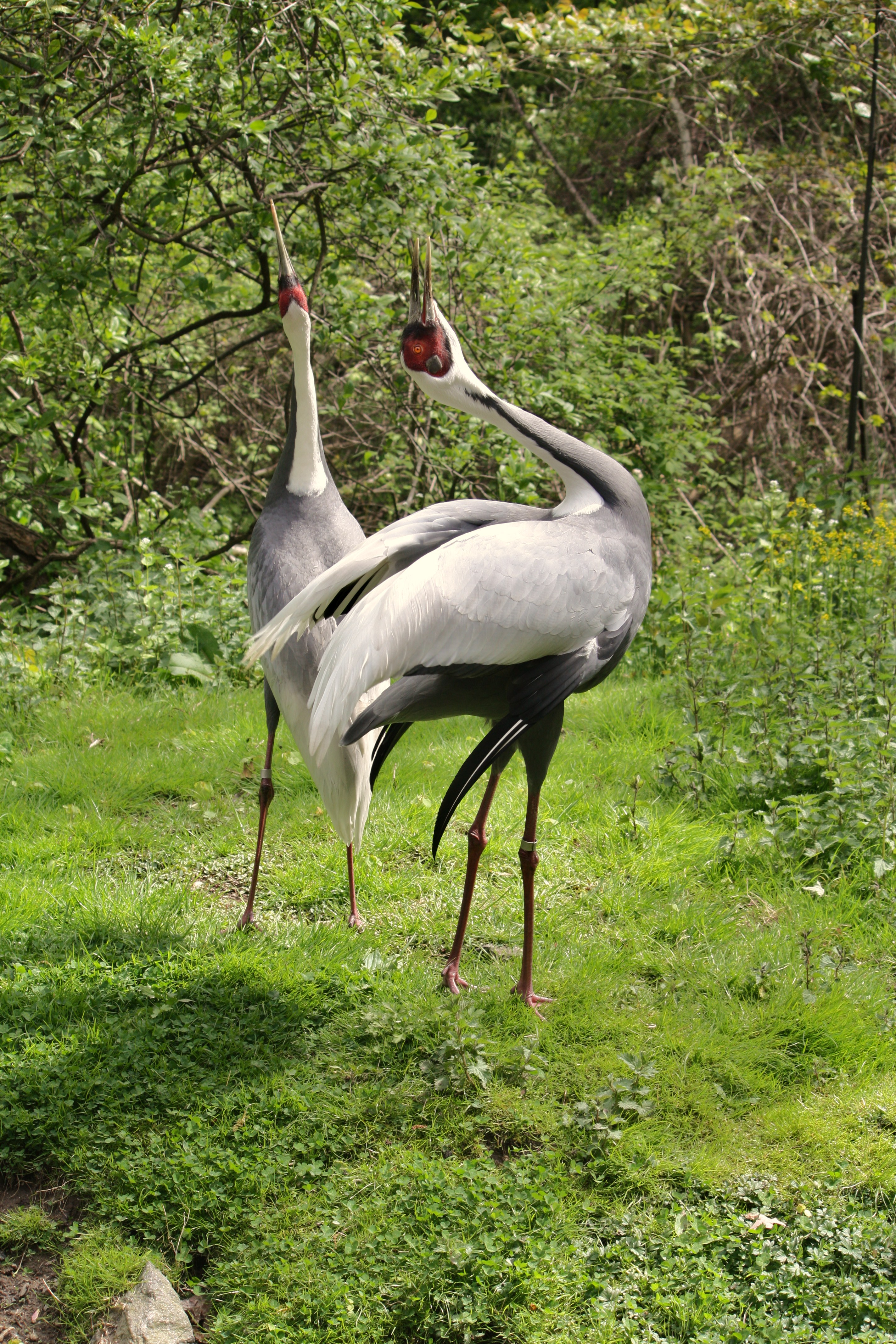 White-naped Cranes (Grus vipio); mated pair performing "unison call". Bronx Zoo, New York City.